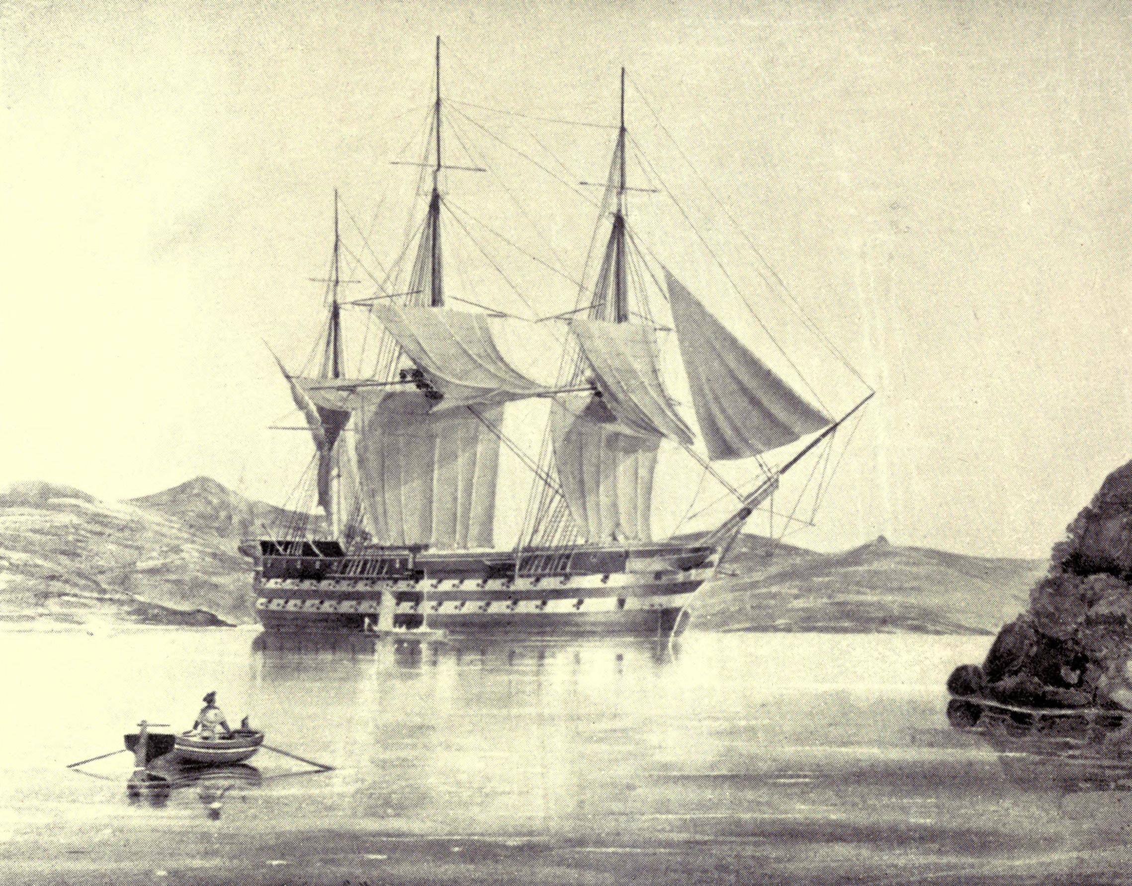 HMS Vengeance Taken from a drawing HMS 'Vengeance' in Port Mahon, 26 May 1852 by Captain George Pechell Mends, the brother of William Robert Mends, the captain of Vengeance at the time. The study was inscribed top left, 'Port Mahon- / HMS Vengeance- / May 26th 52 / Capt Lord Edward Russell'.